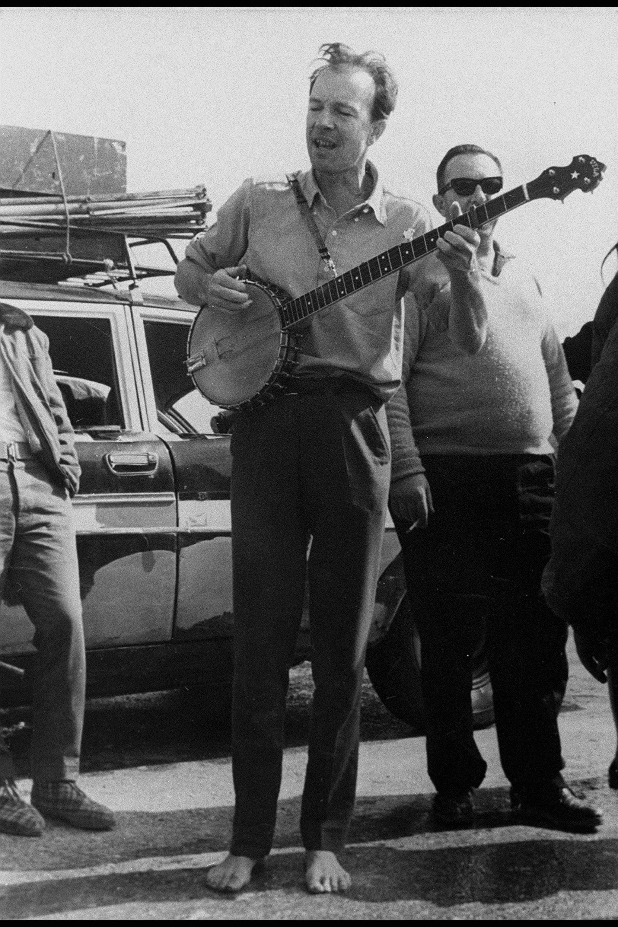 AMERICAN SINGER PETE SEEGER, A MEMBER OF THE "WEAVERS", PERFORMING FOR IDF SOLDIERS.